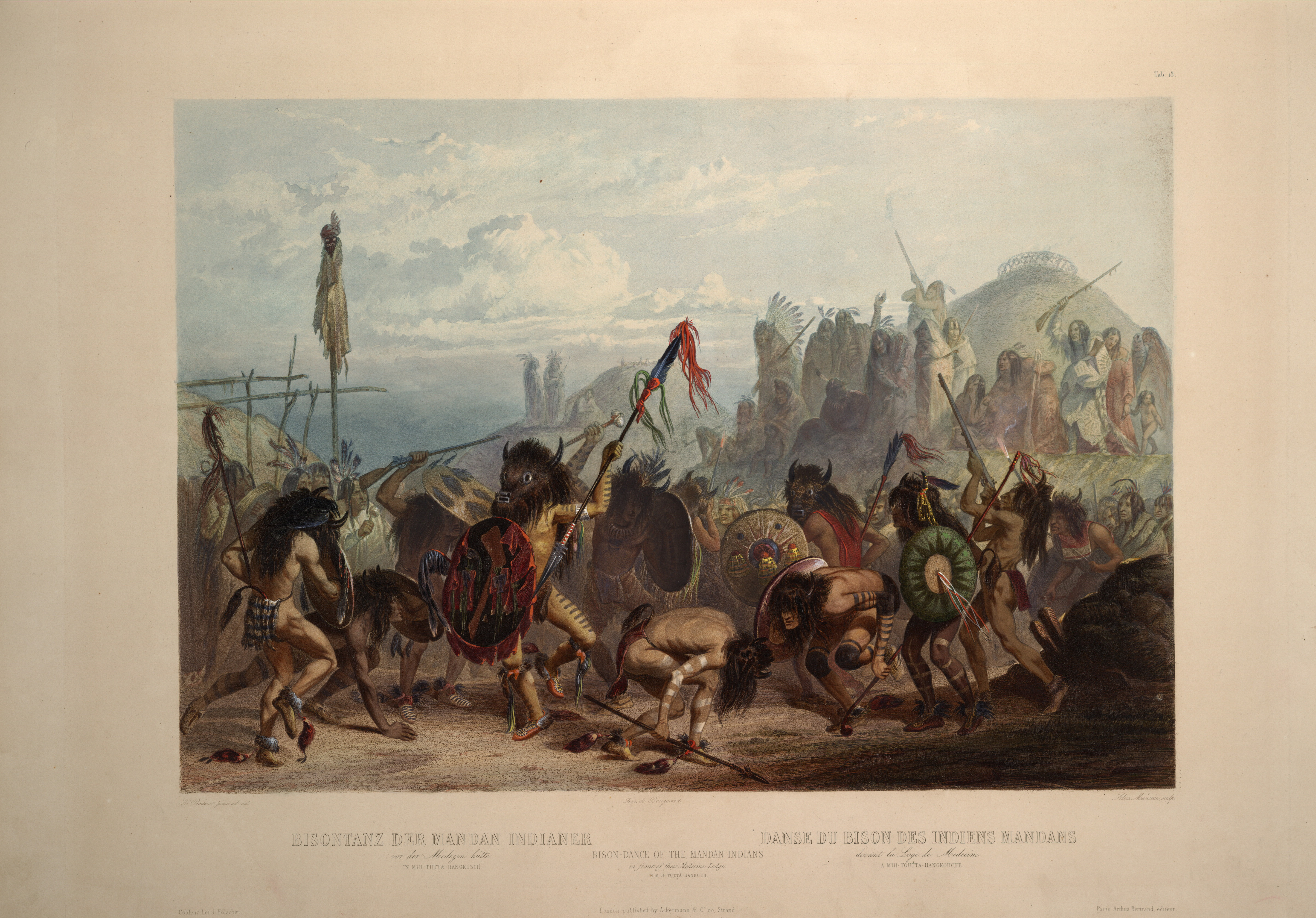 Bison dance of the Mandan indians in front of their medecine lodge